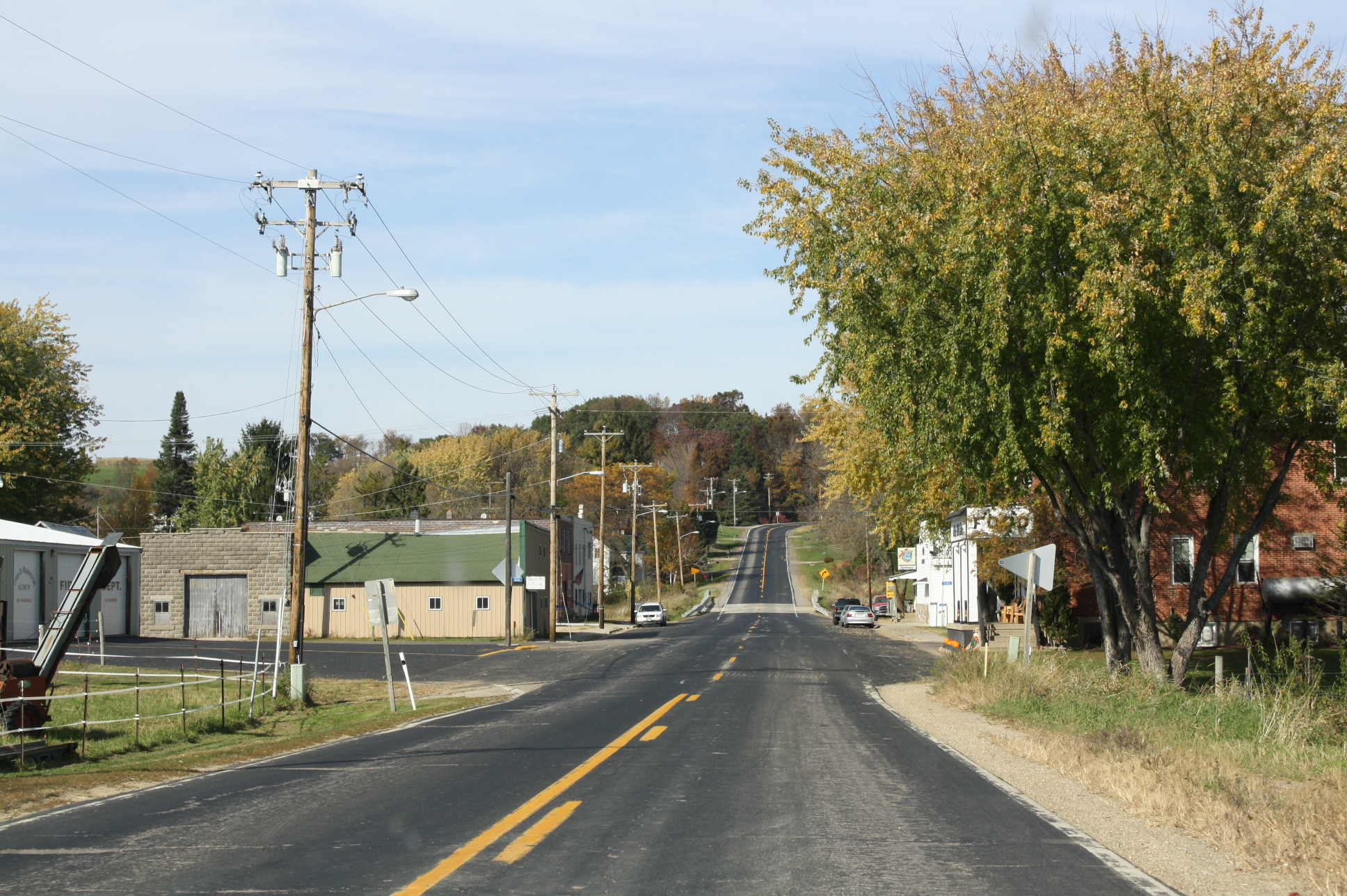 Looking east in downtown Hill Point, Wisconsin along Wisconsin Highway 154.